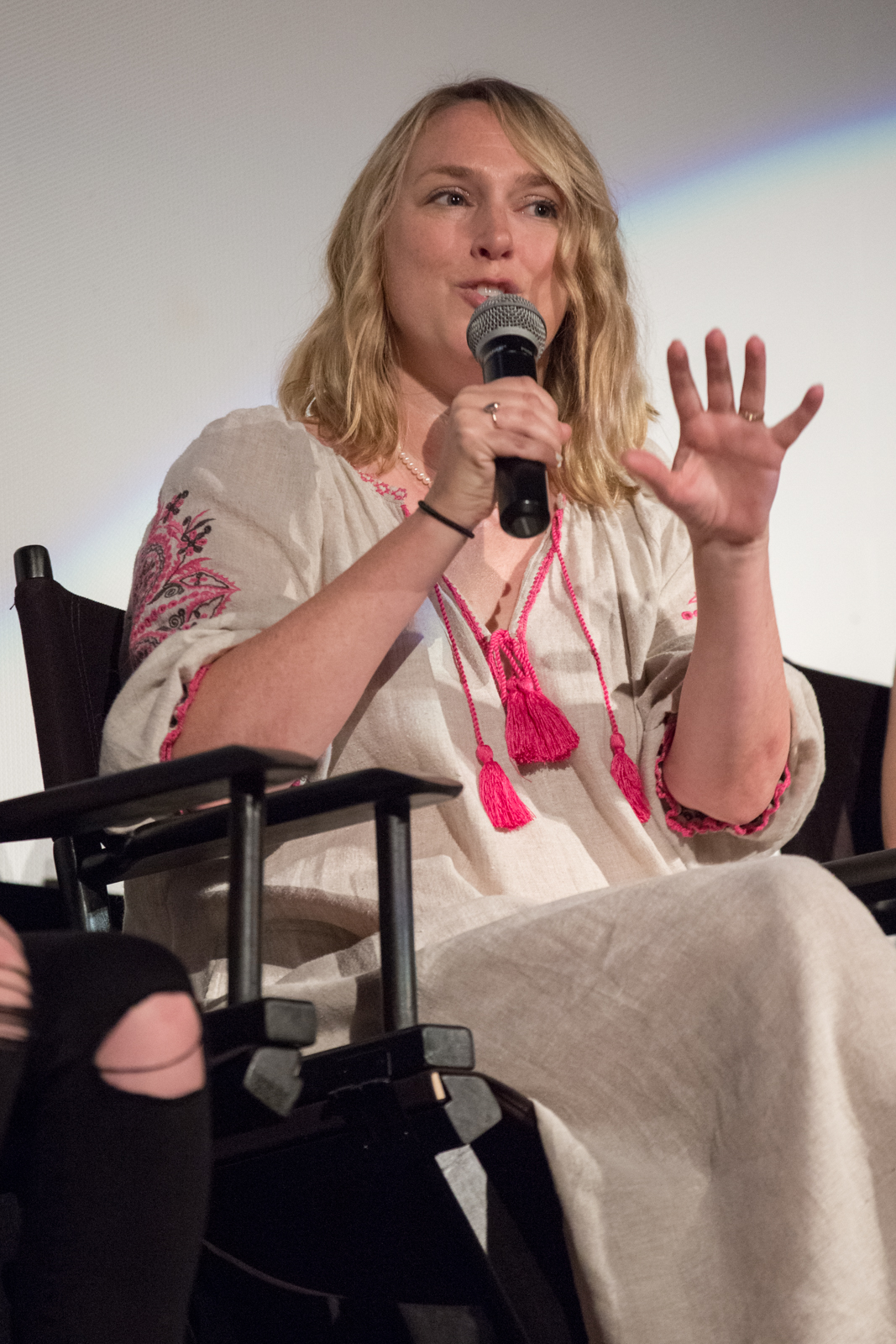 Liz Tigelaar at the ATX Festival presentation for the TV show Casual